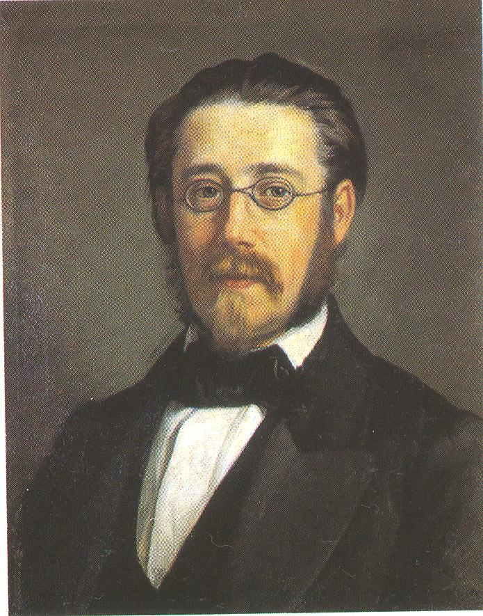 Johan Per Södermark's oil painting of Bedřich Smetana, 1858